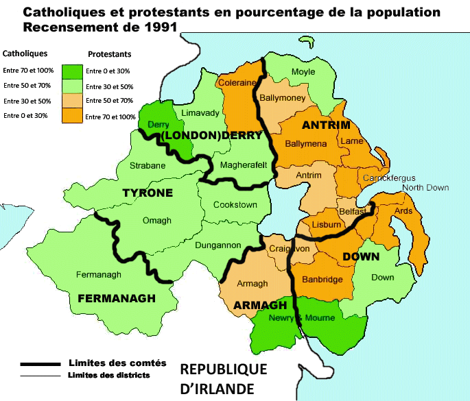 northern ireland - religions and communities - 1991 census.